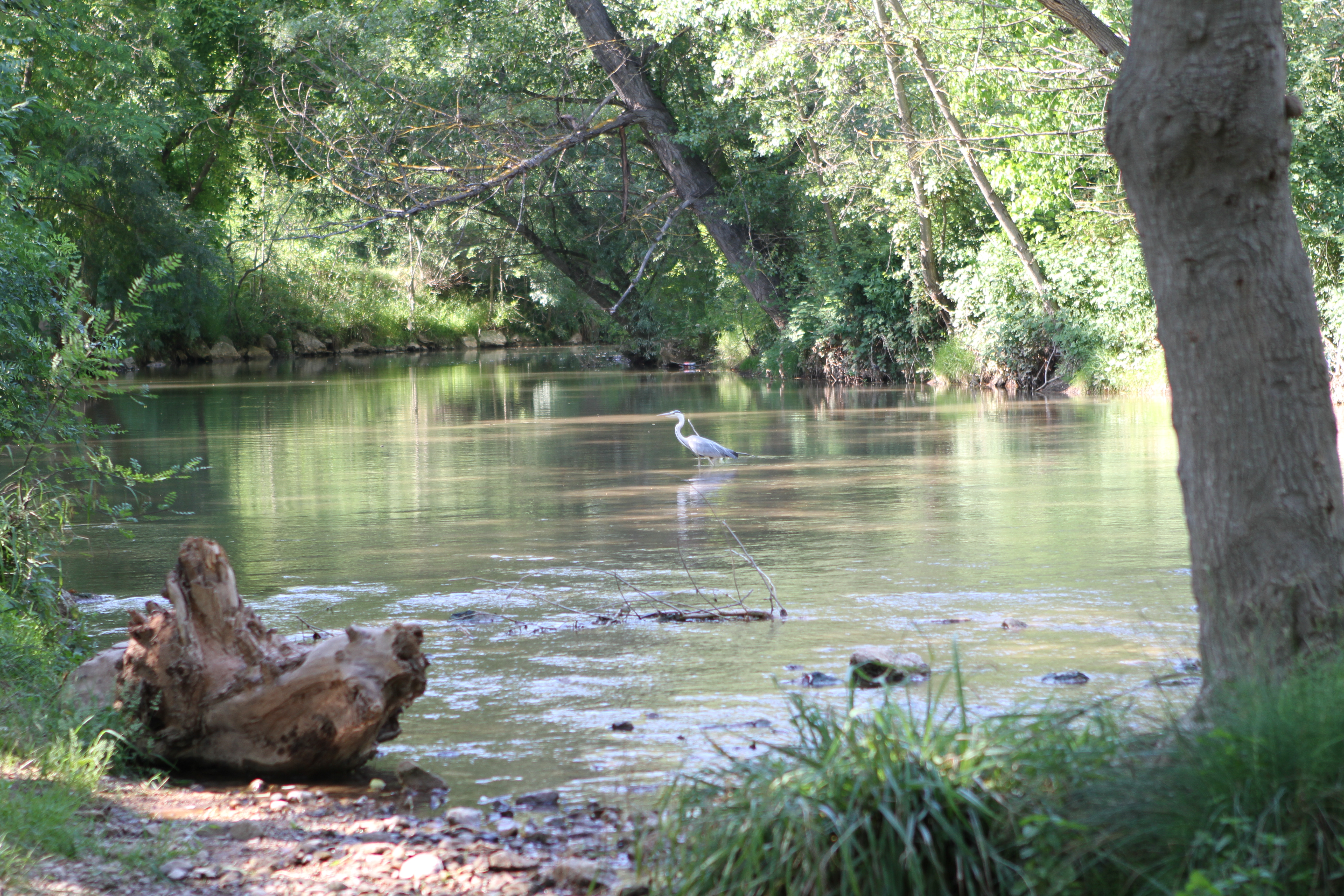 The Arc and its surroundings, near Aix-en-Provence (Bouches-du-Rhône, France)